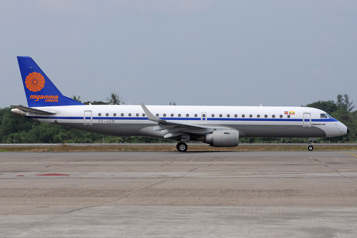 Myanma Airways Embraer 190 at Yangon Airport